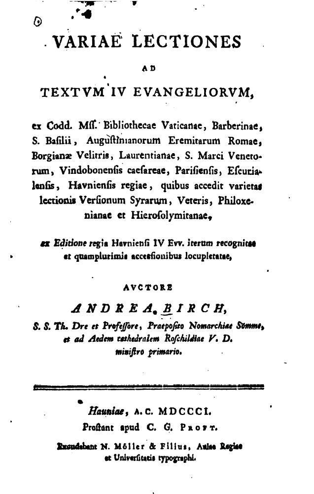 title page of the book